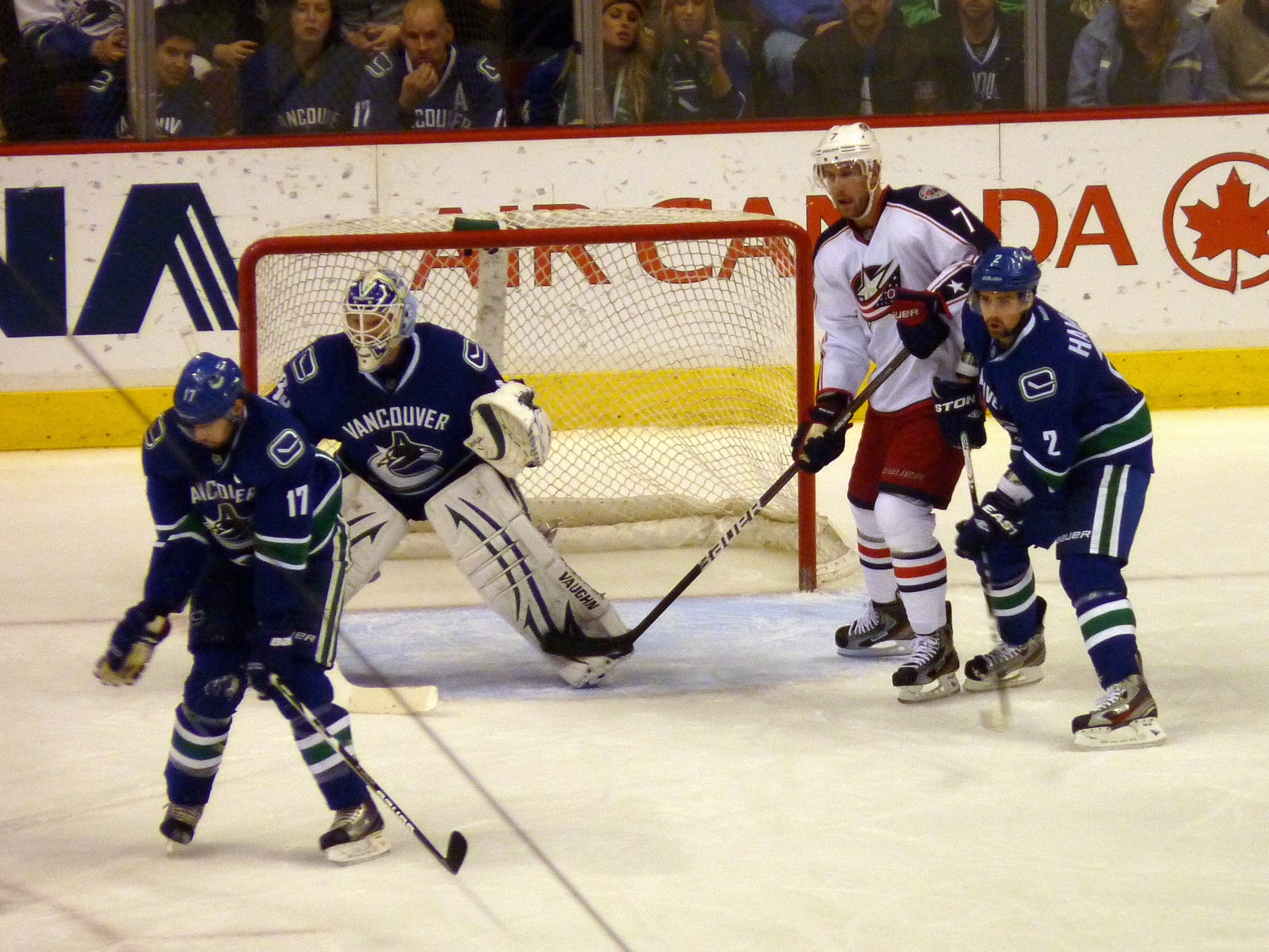 Vancouver Canucks forward Ryan Kesler (left) attempts to block a shot in front of goaltender Cory Schneider (centre left), while defenceman Dan Hamhuis (right) checks Columbus Blue Jackets forward Jeff Carter by the net. The game was held on November 29, 2011, at Rogers Arena in Vancouver, BC.